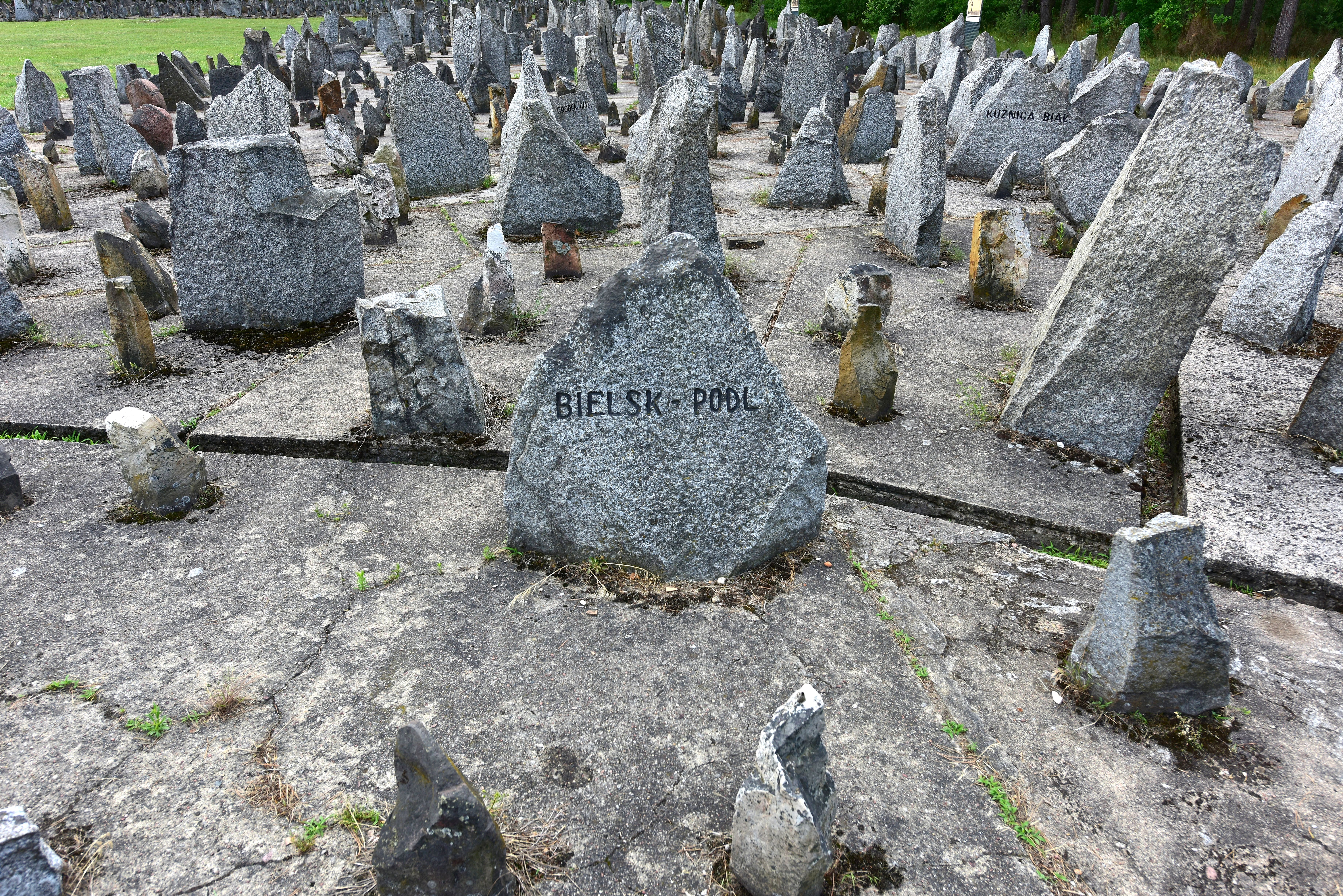 Treblinka death camp memorial. A stone commemorating the murdered Jews from Bielsk Podlaski